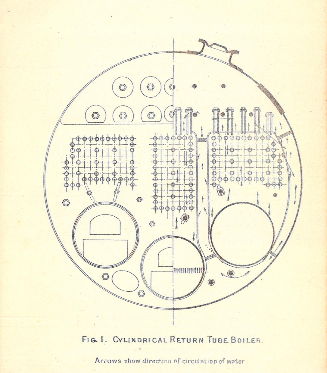 Scotch marine boiler Scotch marine boiler. Furnace end-view and half-section Scans from 'Stokers' Manual 1912', the Royal Navy's standard training handbook, "for engine-room ratings not entitled to the steam manuals and seamen under training in mechanical and stokehold work". See other images from this source in Scans from 'Stokers' Manual 1912'